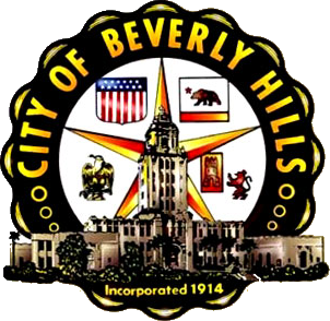 Seal of the City of Beverly Hills